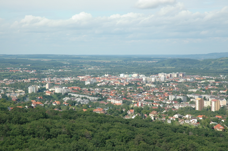 Panoramic view of Zalaegerszeg